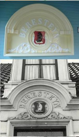 Decorative piece that used to grace the entrance of the Hofje van Beresteijn in Haarlem on the Lange Molenstraat, across the Haarlem railway station. Expansion of the station led to the demolishing of the building in 1969. This decorative piece was relocated and now hangs on the wall of the regent's room in the newly build Hofje on the J. Cuypersstraat, Haarlem. Photo of the current situation placed on top of original location photo (now gone in favor of bus parking).